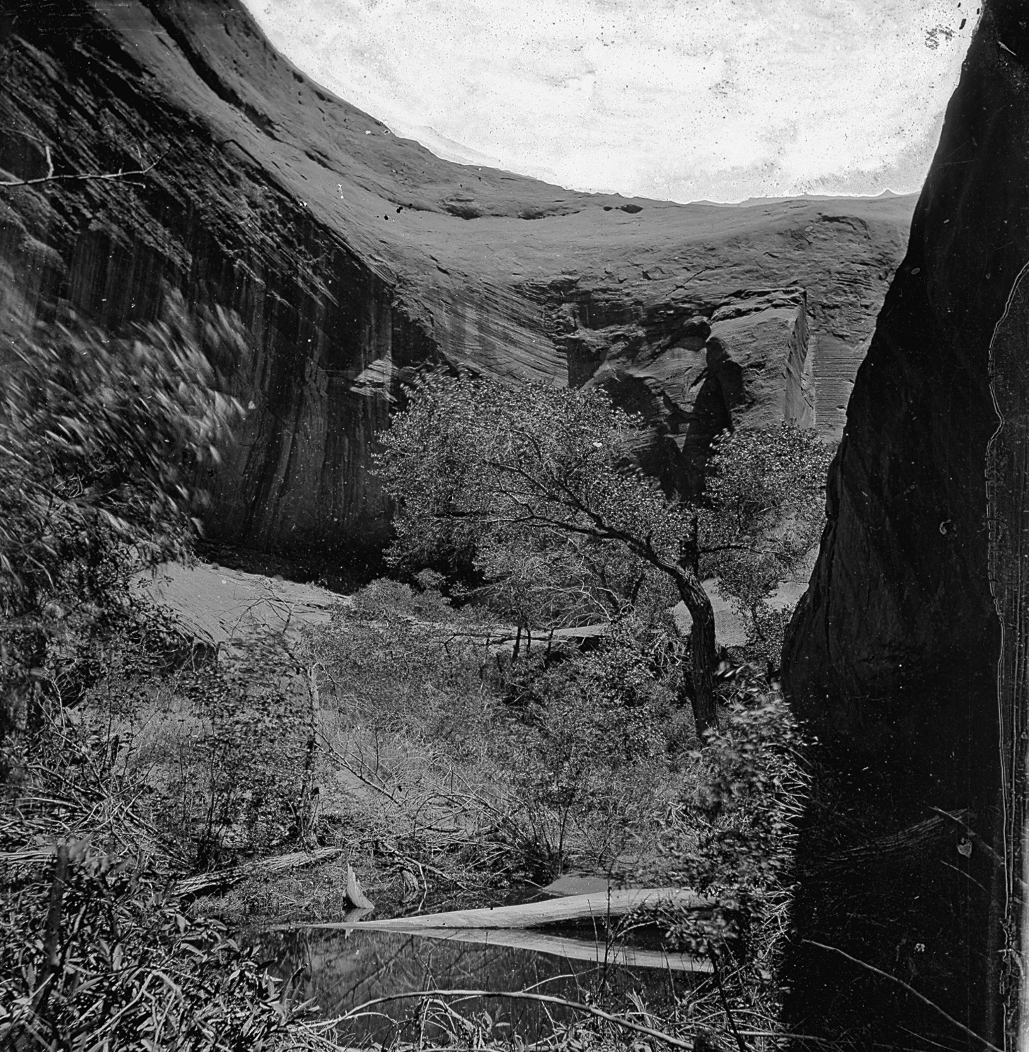 A cropped version of the original image, which is public domain.